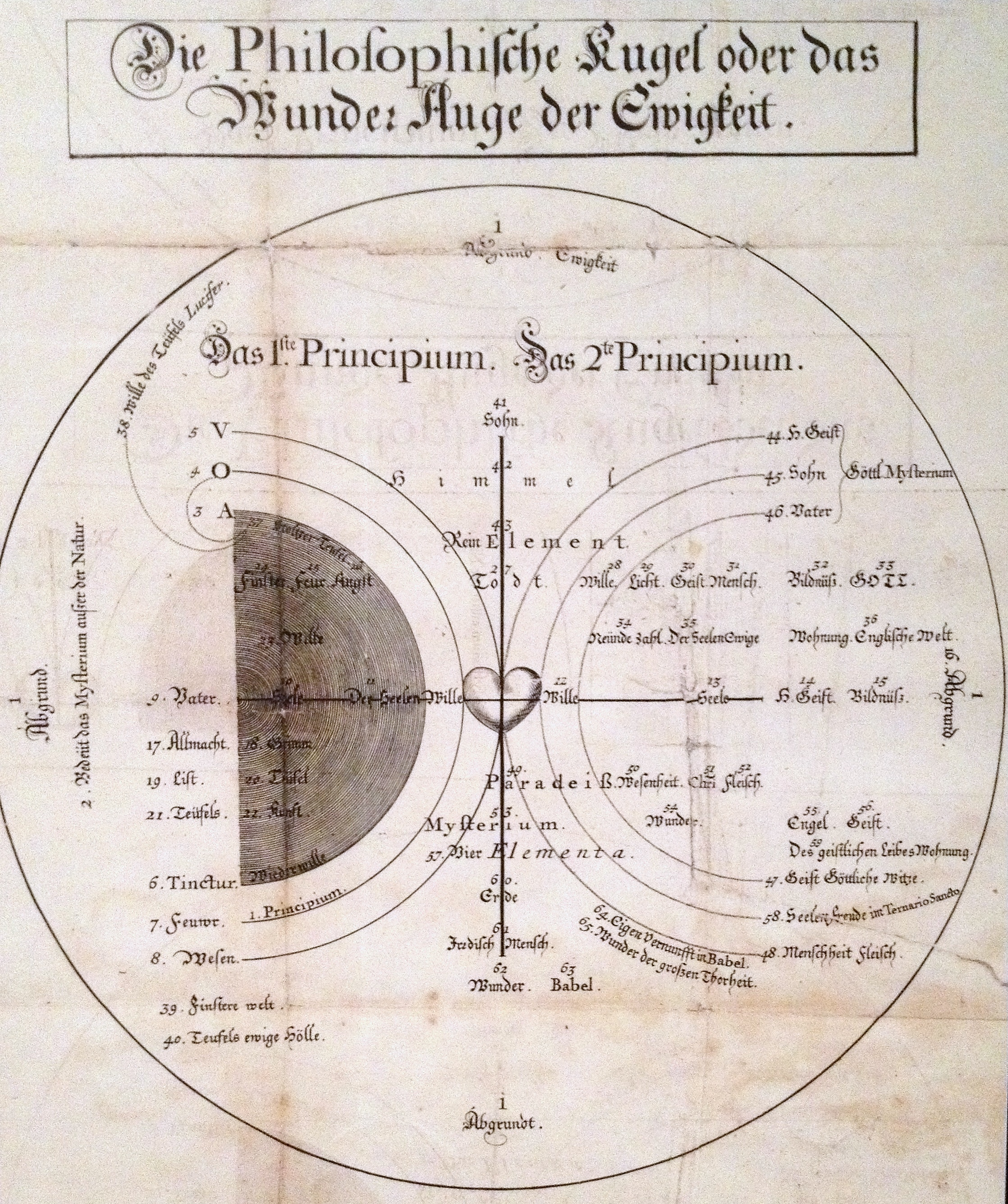 Jacob Boehme: Representation through a drawing of his Cosmogony in 'Vierzig Fragen von der Seele' or Forty Questions of the Soul (1620).